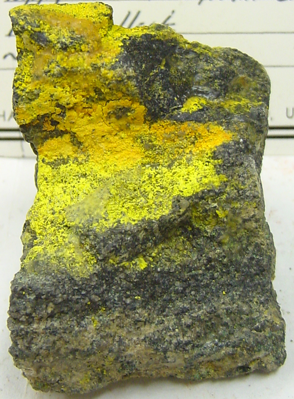 Carnotite. Collected from Happy Jack Mine, White Canyon District, Utah. BYU index 9-9041, K_2(UO_2)_2(VO_4)_2 x 2H_2O. Mineral collection of Brigham Young University Department of Geology, Provo, Utah. Photograph by Andrew Silver.